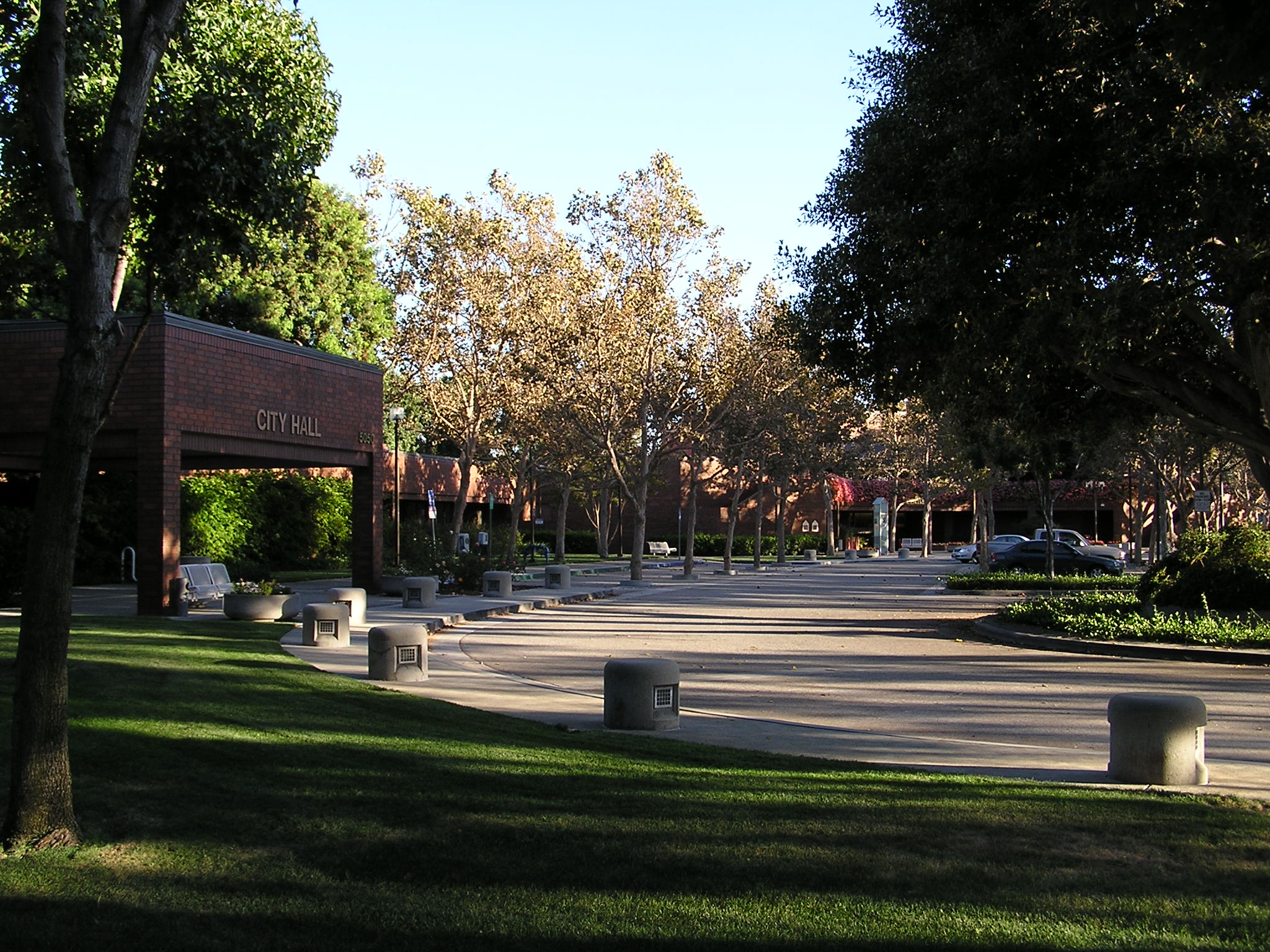 Lakewood, California City Hall.